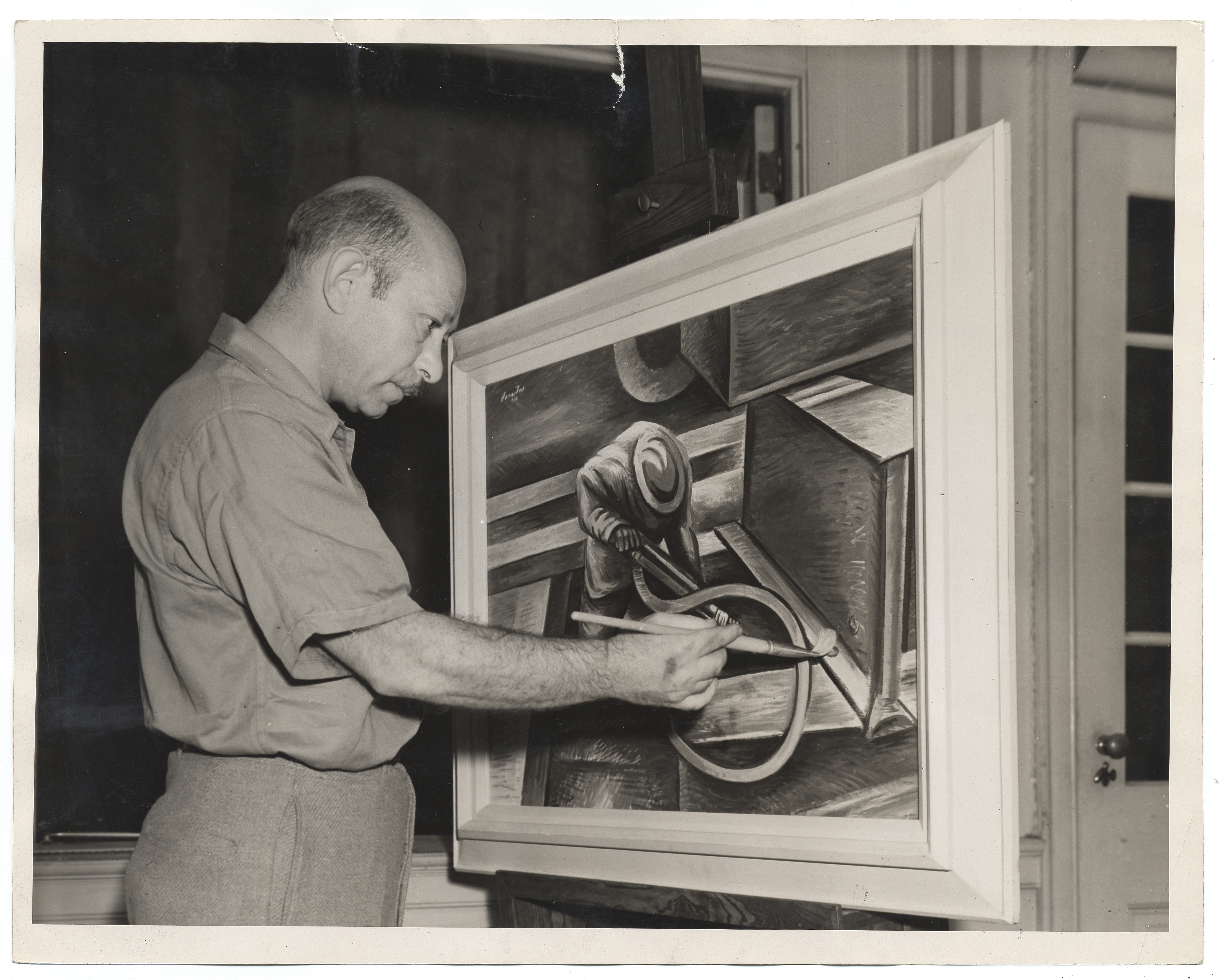 Harriton working on a painting for the World's Fair.Identification on verso (handwritten and stamped): Federal Art Project W.P.A.; Photographic Division; 235 East 42nd Street; New York City Location: WPA Artists chosen for World's Fair; Date: 8/16/38; Negative No.: 3229-5; Photographer: Mipaas Abraham Harriton.